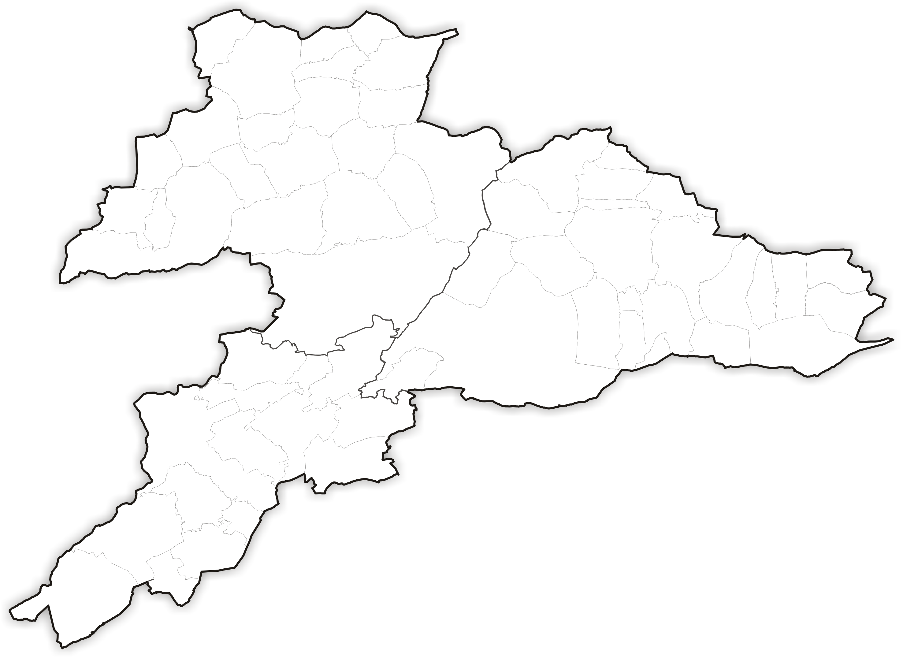 Municipalities in Canton Jura